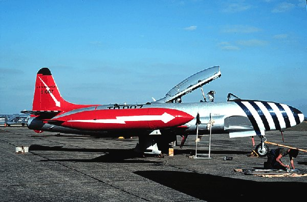 A Lockheed T-33A-1-LO Shooting Star (s/n 49-1007) of the 36th Fighter Wing - Furstenfeldbruck Air Base, Germany 1951. This Aircraft was part of USAFE's first Aerobatic Team, The Skyblazers.